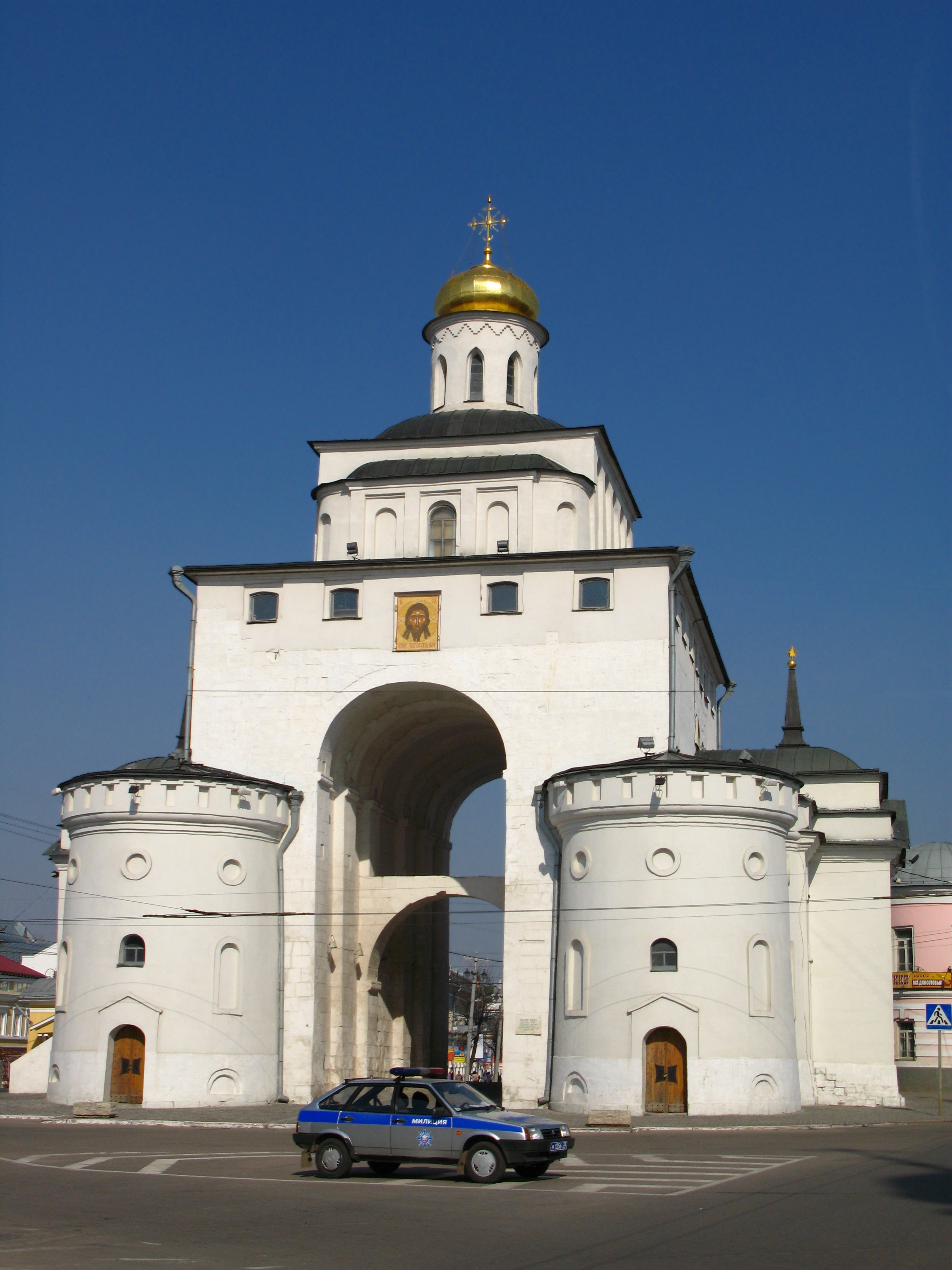 Town gates of Vladimir, Russia.